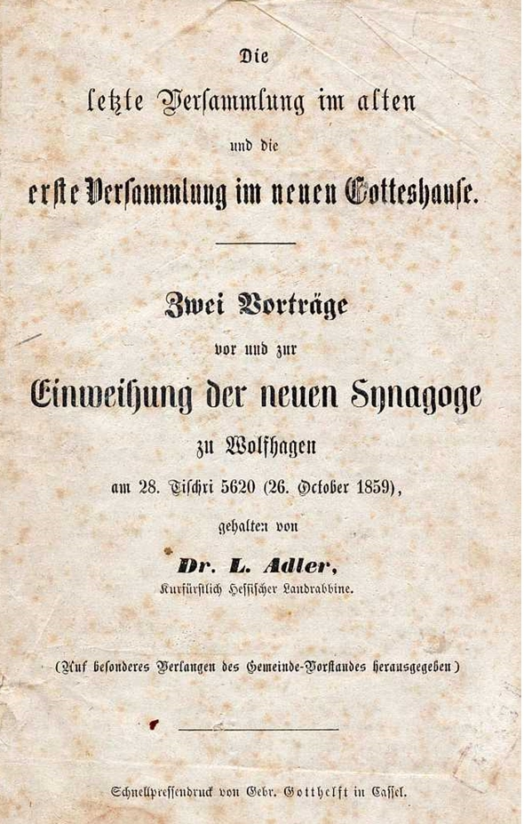 Speechs of Dr Adler, rabbi of Kassel for the inauguration of the synagogue of Wolfhagen (Hesse - Germany) in 1859